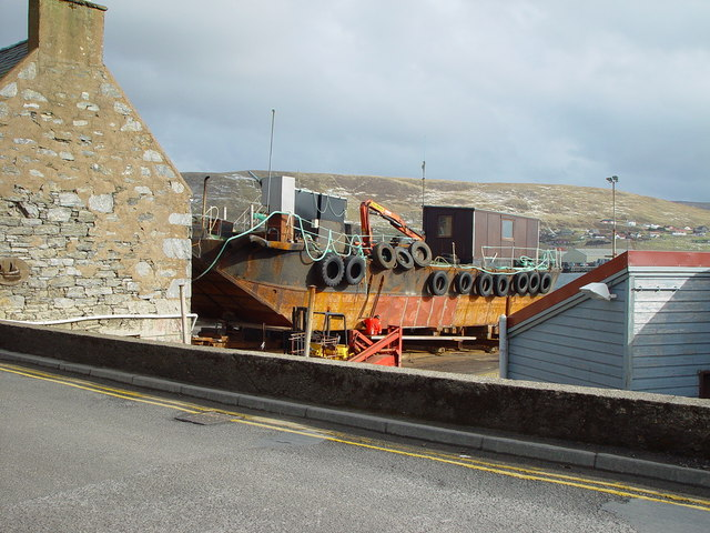 Malakoff & Moore's Slip, Scalloway, Shetland. Built in WWII to service MTBs that went between Shetland and Norway this slip was one of the links in 'The Shetland Bus'. Now it is used for servicing fishing boats and salmon farm vessels.